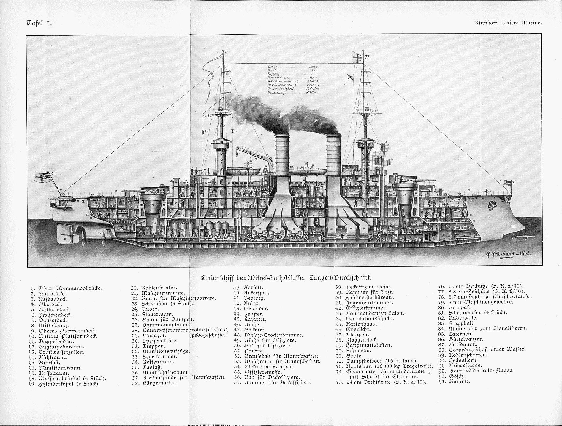 Cross section of a pre-dreadnought battleship of the Wittelsbach class